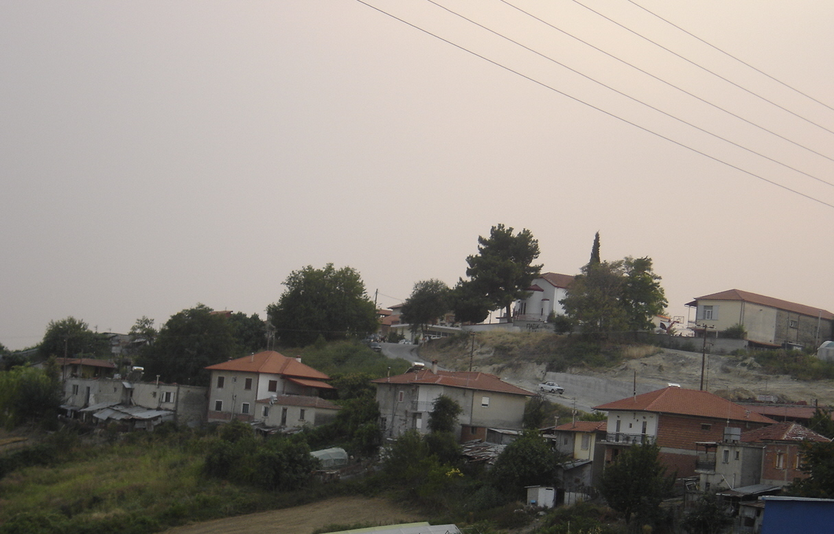 View from Palaiostani